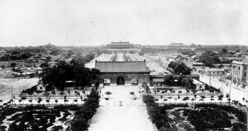 China, Peking.- Blick vom Chienmen auf die Kaiserstadt Information added by Wikimedia users.